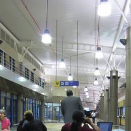 Kisumu international Airport